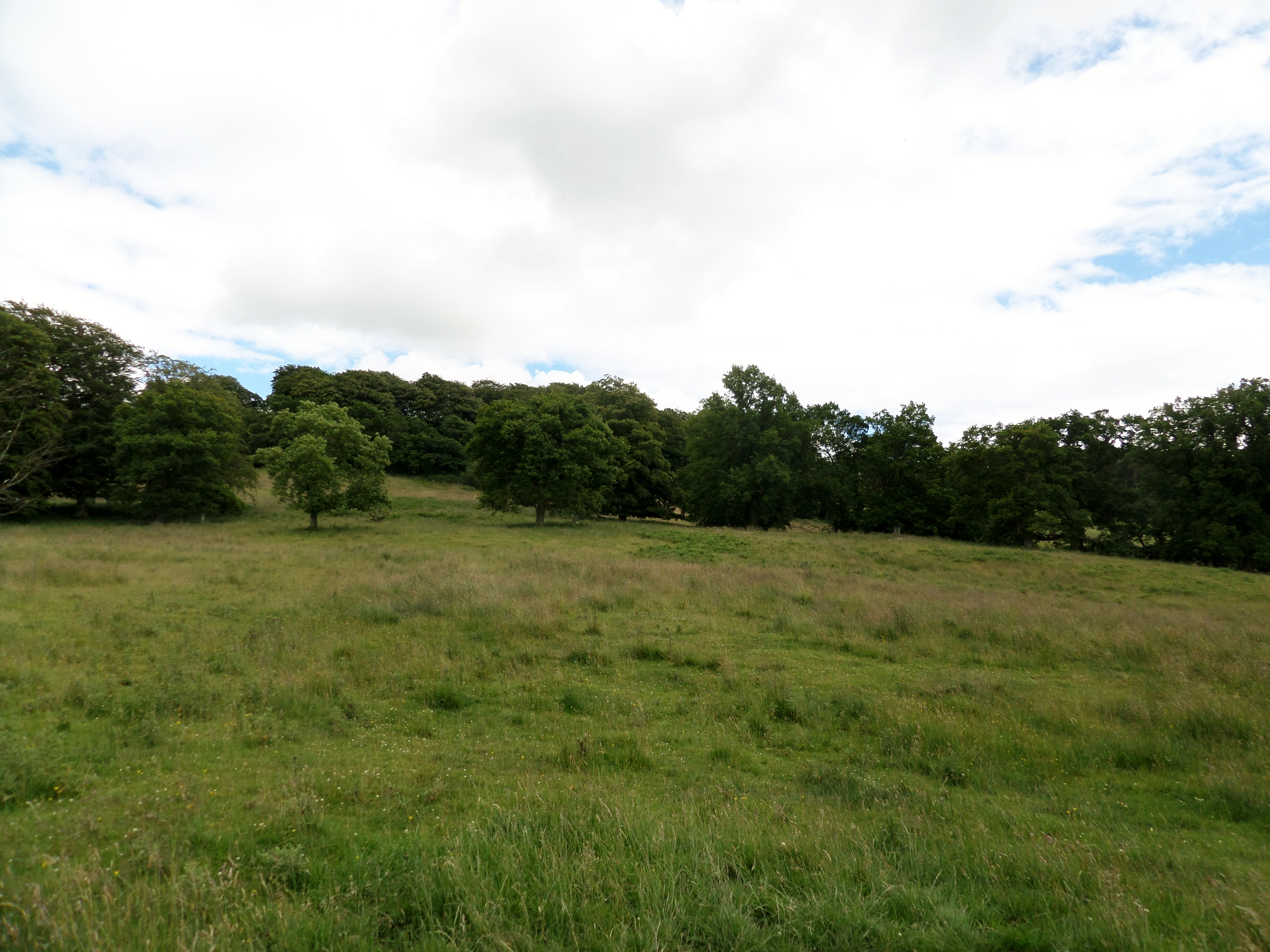 The habitat of the herds of Chillingham Wild Cattle, Chillingham Park, Northumbria, England